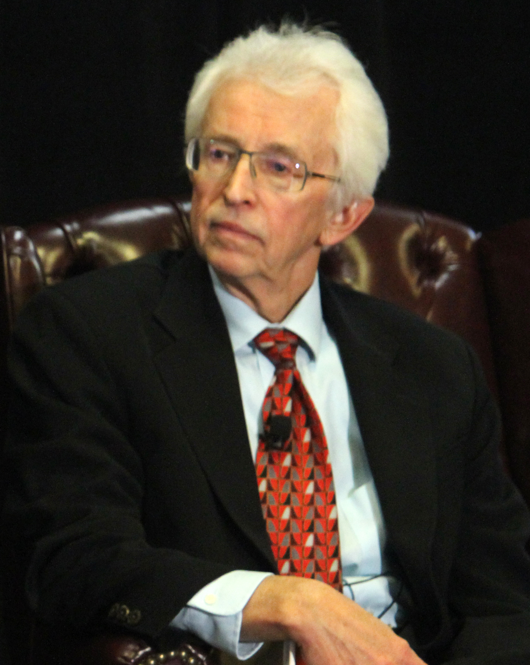 Assistant Secretary of State for Arms Control, Verification and Compliance Rose Gottemoeller speaks with Dr. Siegfried S. Hecker about "Arms Control in the Information Age" at the Center for International Security and Cooperation (CISAC) in Stanford, California, on October 27, 2011. [State Department photo/ Public Domain]